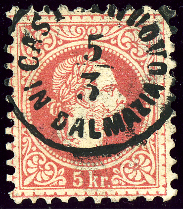 Austrian KK stamp 5 kr 1867 issue, cancelled CASTELNUOVO IN DALMAZIA (Herceg Novi, Montenegro)